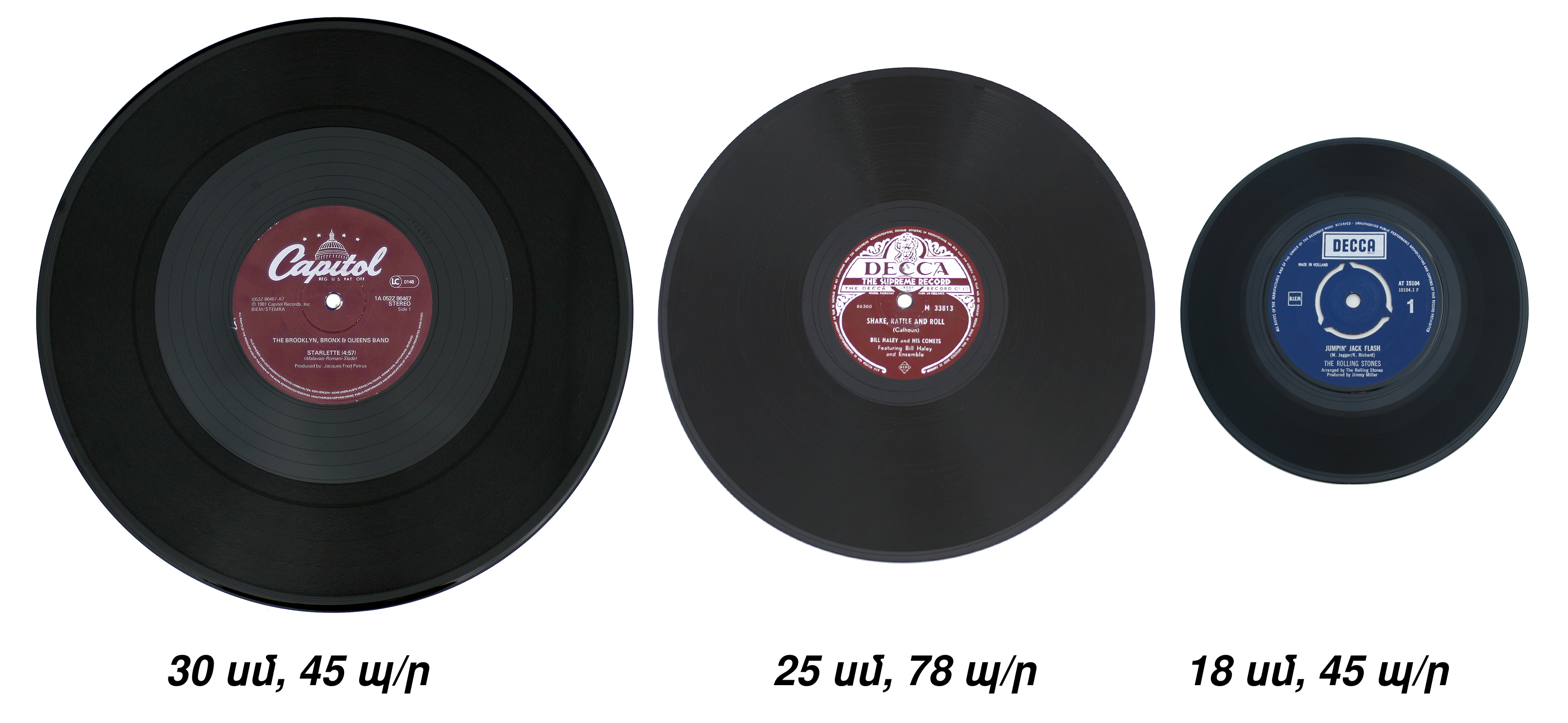 3 formats of vinyl singles